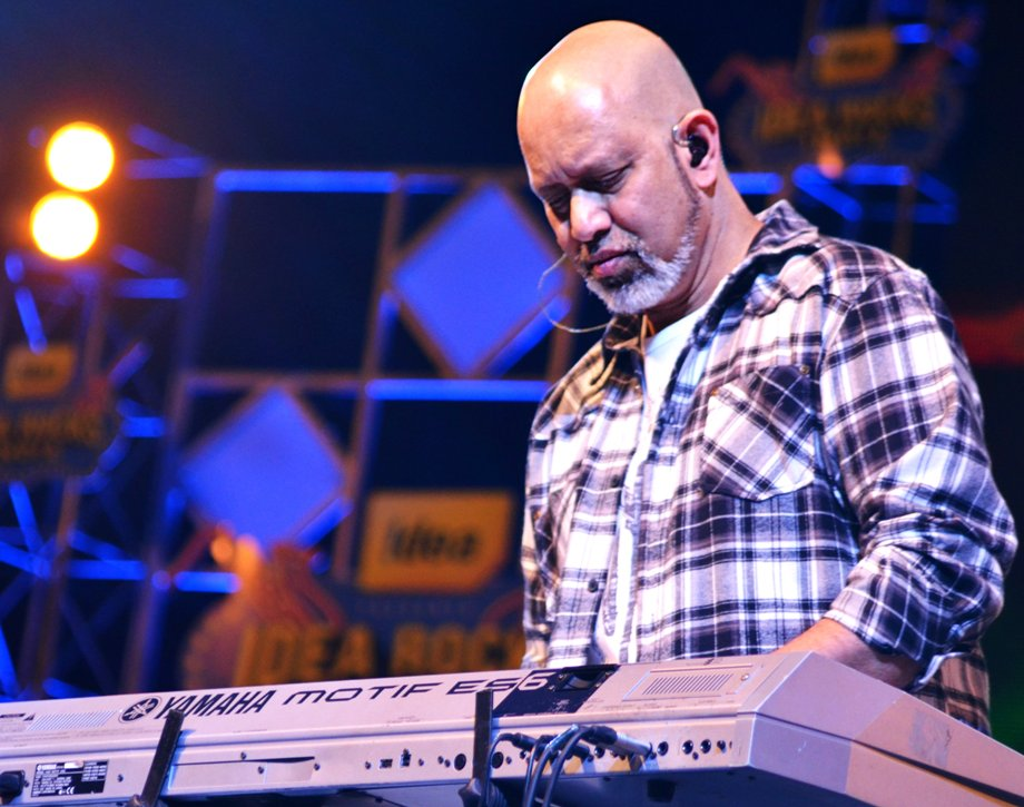 Loy Mendonsa performing with Shankar-Ehsaan-Loy trio at Idea Rocks India concert at NICE Grounds in Bangalore, India. (Photo - Jim Ankan Deka)